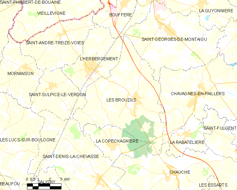 Map of French municipality Les Brouzils